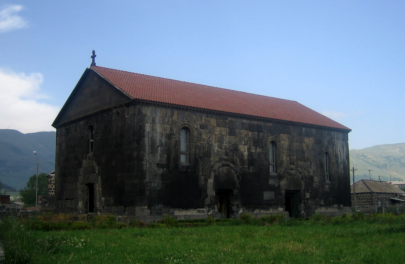 The Basilica of the Holy Cross, an early Armenian church dating to the 4th century in the town of Aparan, Armenia.